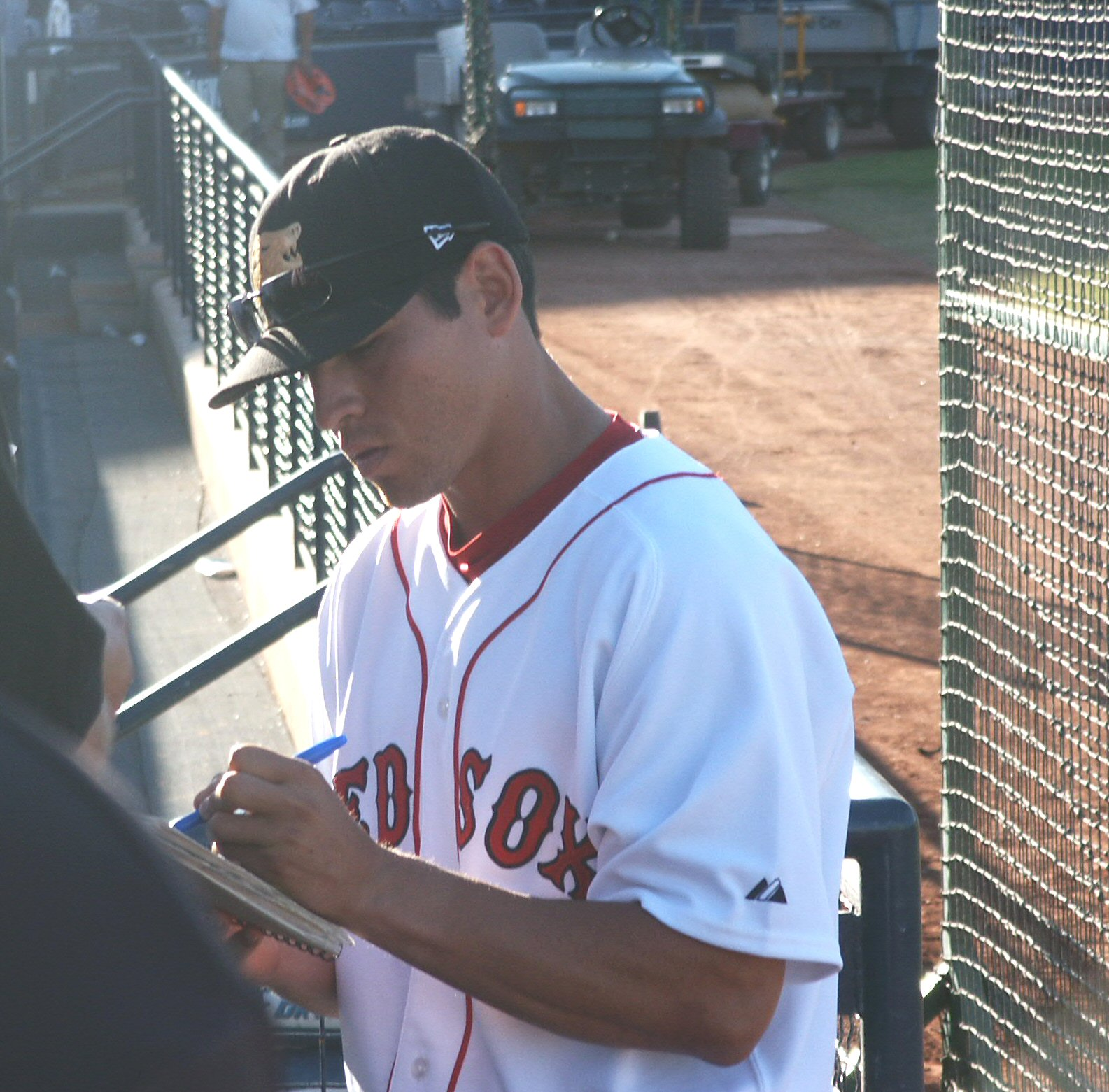 Jacoby Ellsbury signing autographs after and AFL game on 10/14/06 taken by Chris Walsh and for use in the Jacoby Ellsbury article.